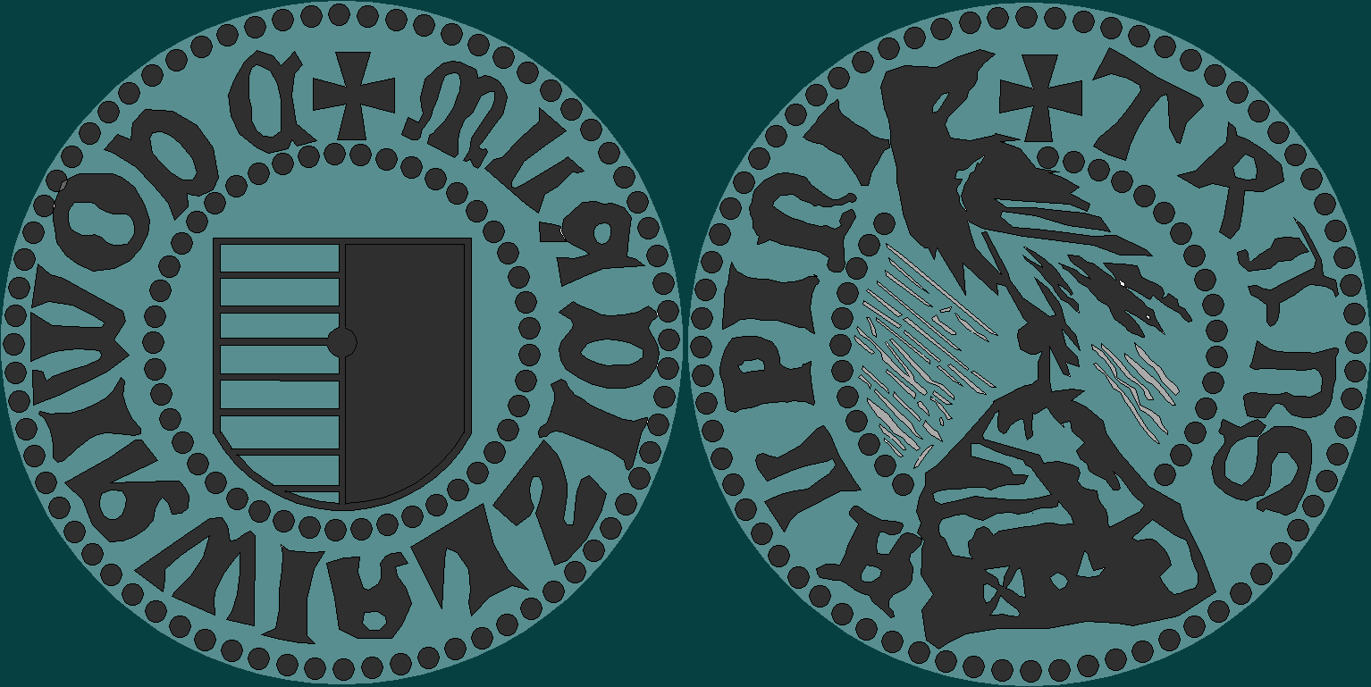 Vladislav I Vlaicu silver coins minted according to Venetian ducats standard. Av. +M(oneta) LADIZLAI WAIWODE Rv. +TRANS-ALPINI 1366-1367